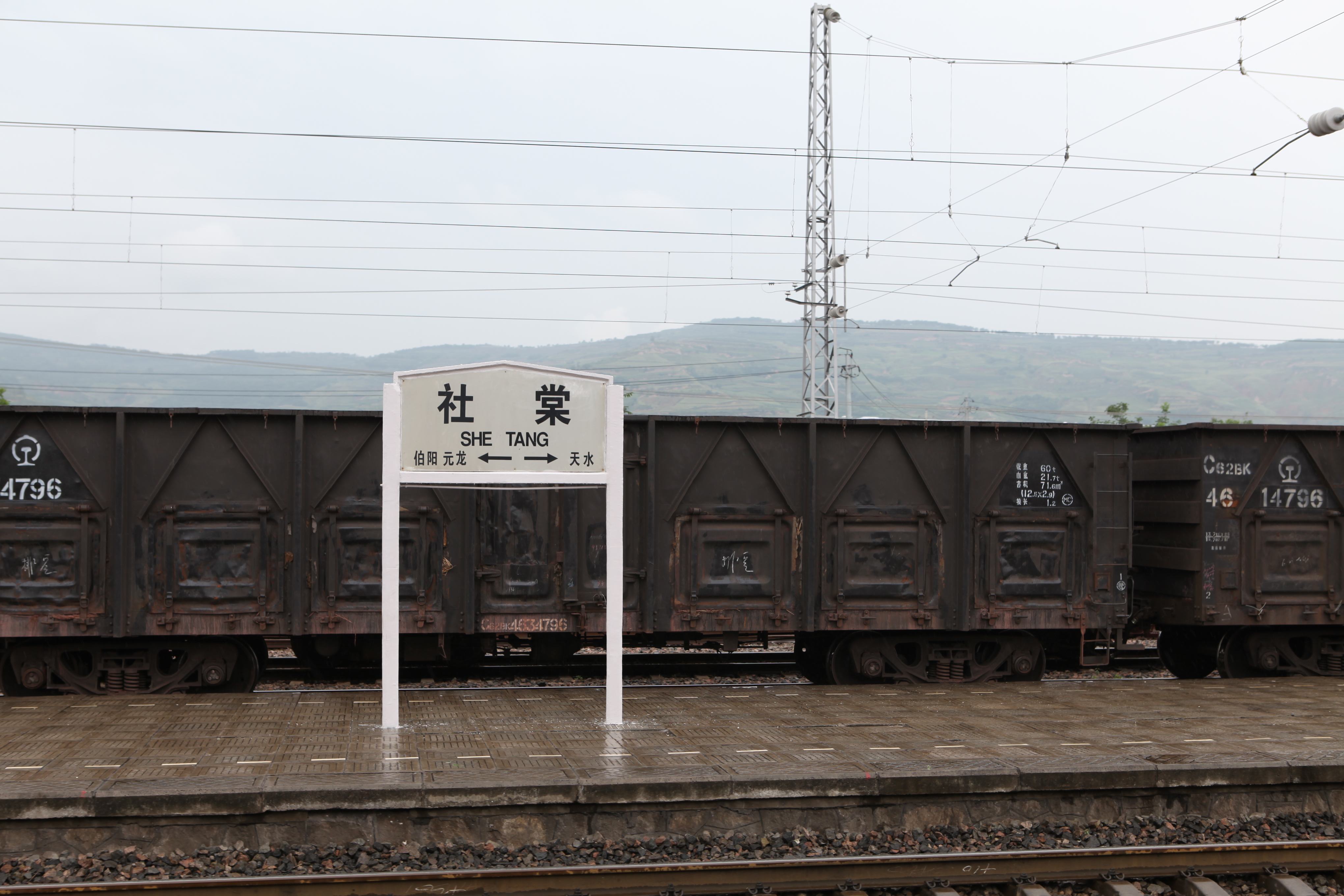 Shetang Station,Longhai Railway